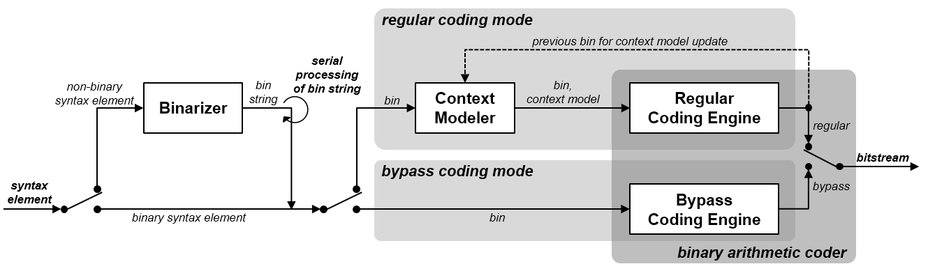 H.264 CABAC Encoder Workflow Diagram